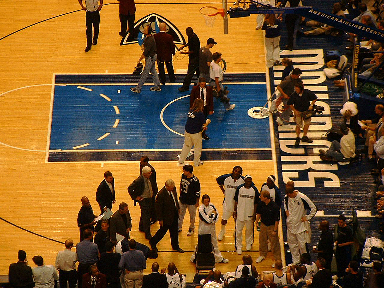 Mark Cuban with Dallas Mavericks basketball players at the American Airlines Center.